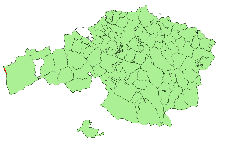 Lanestosa municipality in the province of Biscay